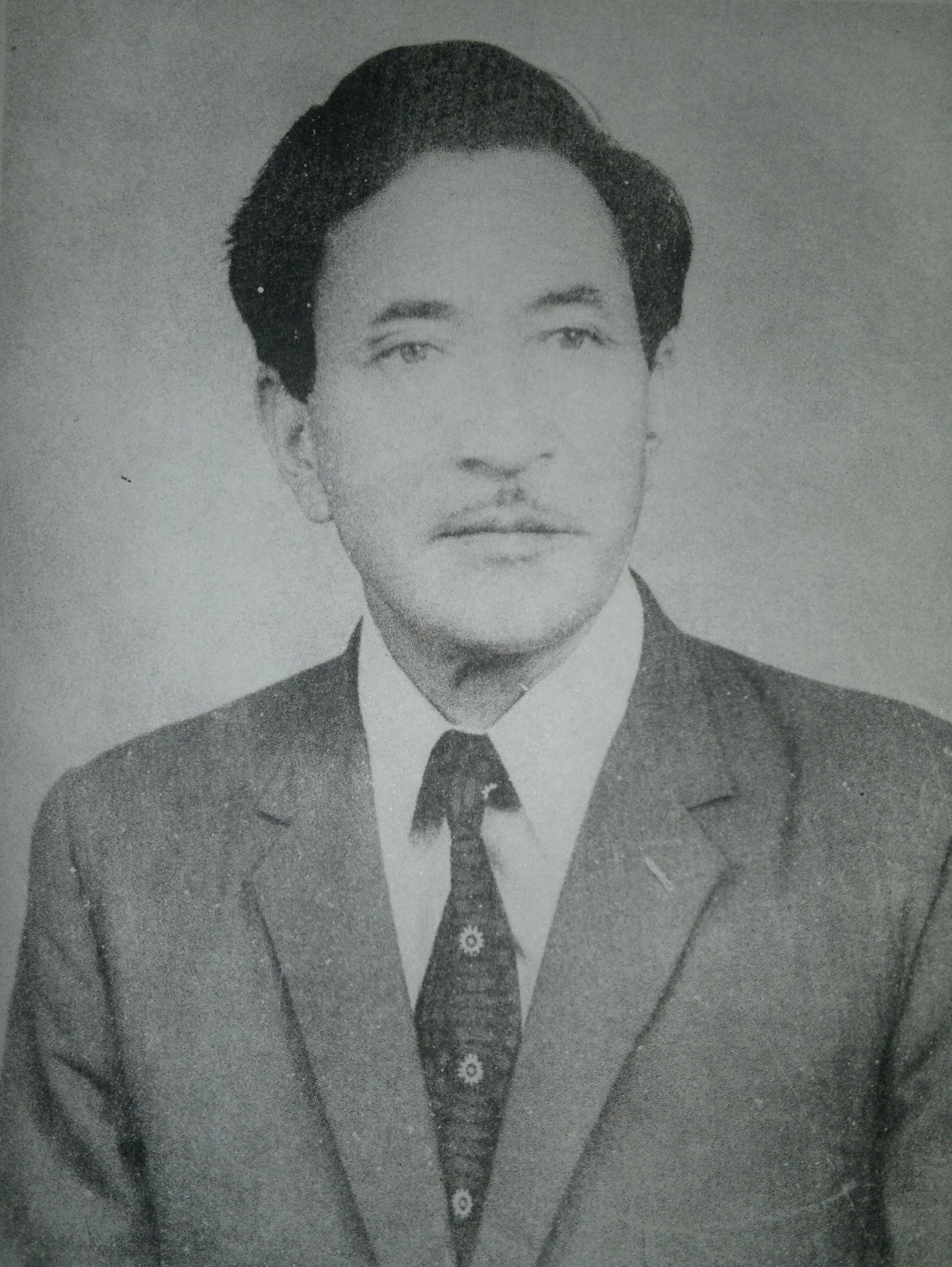 A picture taken at a younger age.